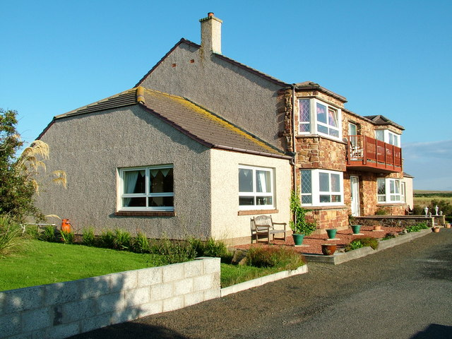 Hawthorns B&B in Mey